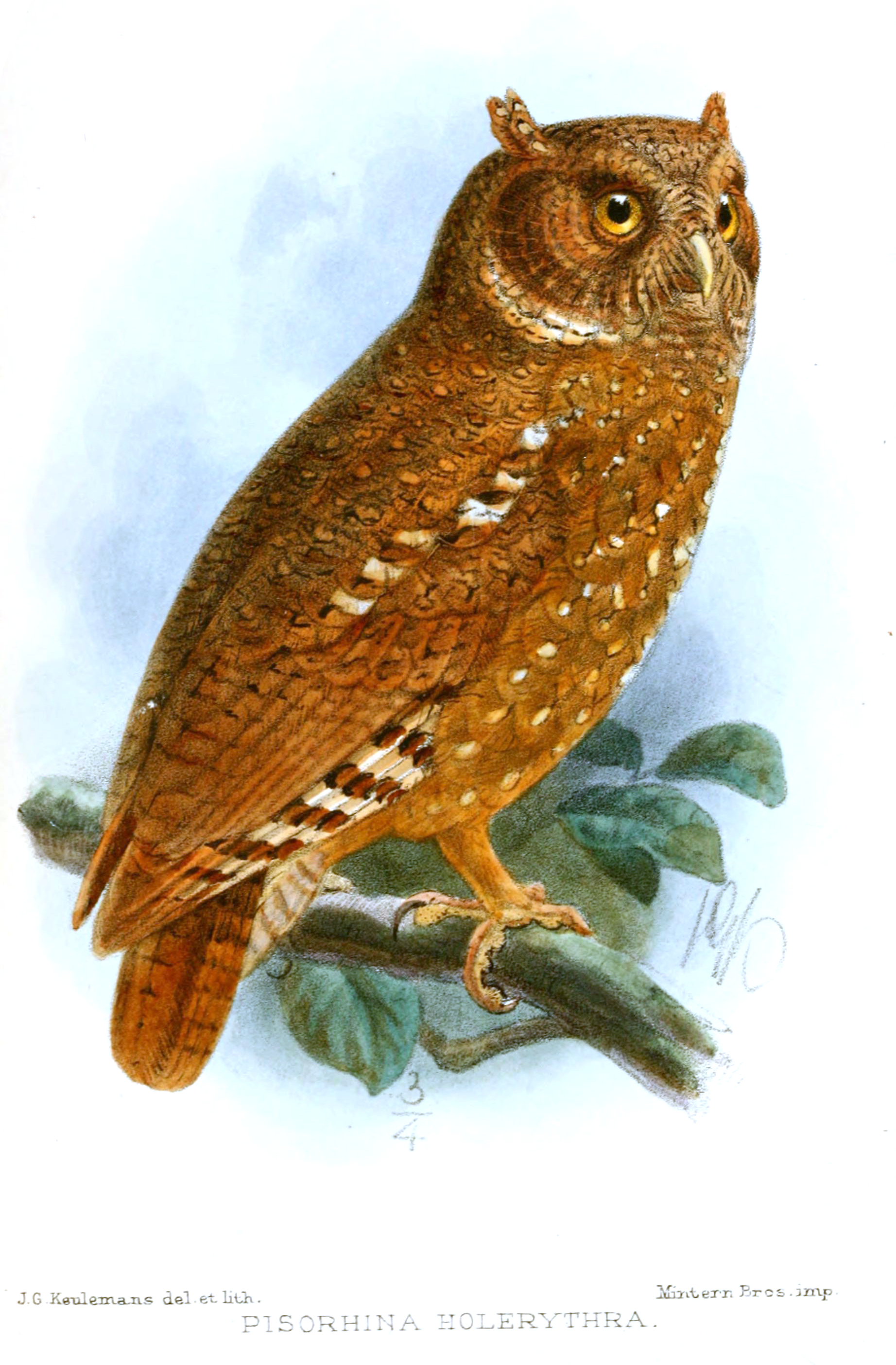 Pisorhina holerythra = Otus icterorhynchus